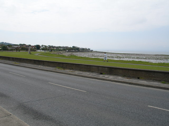 Sutton Creek This delightfully named part of the Howth peninsula coastline is so called because for much of the day, the mud flats and drainage channels are the only view - unless you count the chimneys of Dublin's Power Station at Ringsend. Twice a day the tide makes a short visit, but then it's back to mud once more.